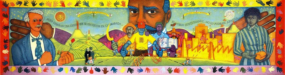 In 1997 the American United Electrical Union and the Frente Autentico del Trabajado, an association of united Mexican labor unions, organized this mural to show solidarity between Mexican and United States workers. The mural is titled "Unions Without Borders" or "Sindicalismo Sin Fronteras," and the three largest figures represented are mexican revolutionary Emiliano Zapata and Lucy and Albert Parsons, important american labor activists of the late 20th century involved in the Chicago Haymarket riots. Lucy Parsons was of partial Mexican heritage. The mural was painted by Mike Alewitz and is approximately 9' tall by 35' long.